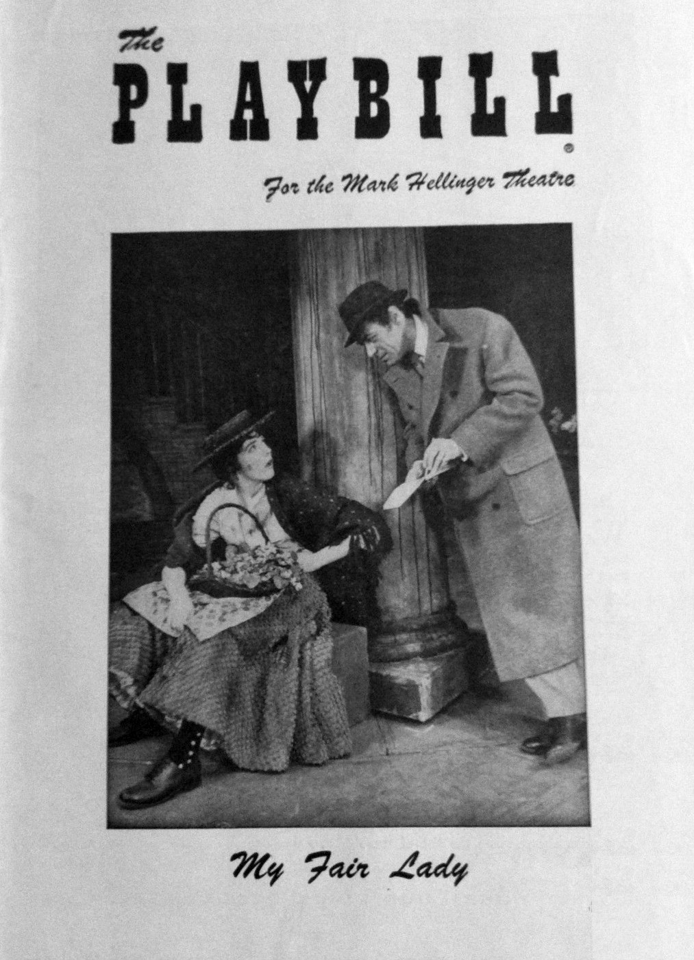 Cover of Playbill magazine for the Broadway show My Fair Lady. A search for Playbill renewals was done at . Only one pre-1964 renewal was discovered; for an article written by Lorraine Hansberry in 1960 which was published in the magazine. There's no evidence there are any continued claims on this material.